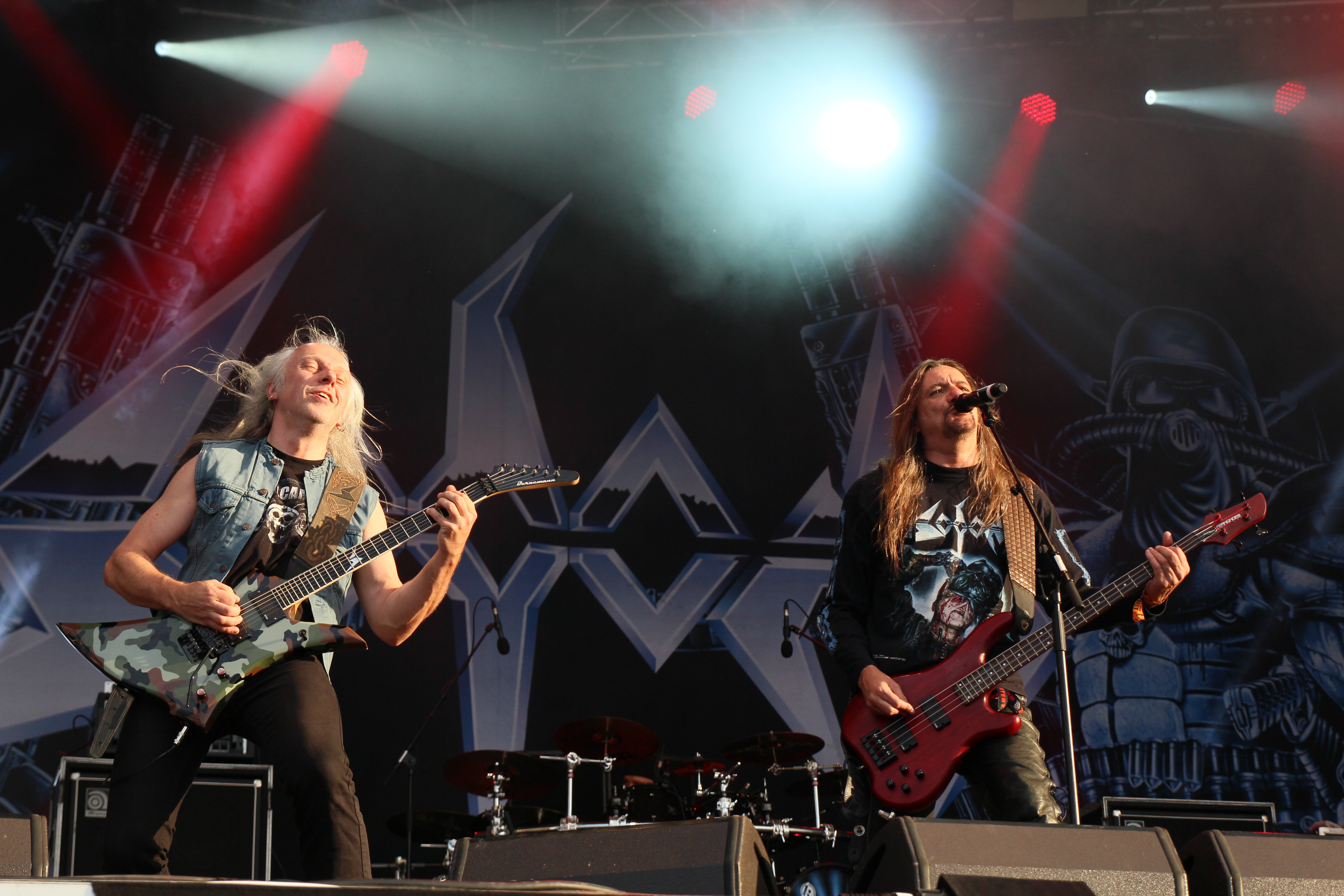 The German thrash metal band Sodom at the Rockharz Open Air 2014 in Ballenstedt/Germany